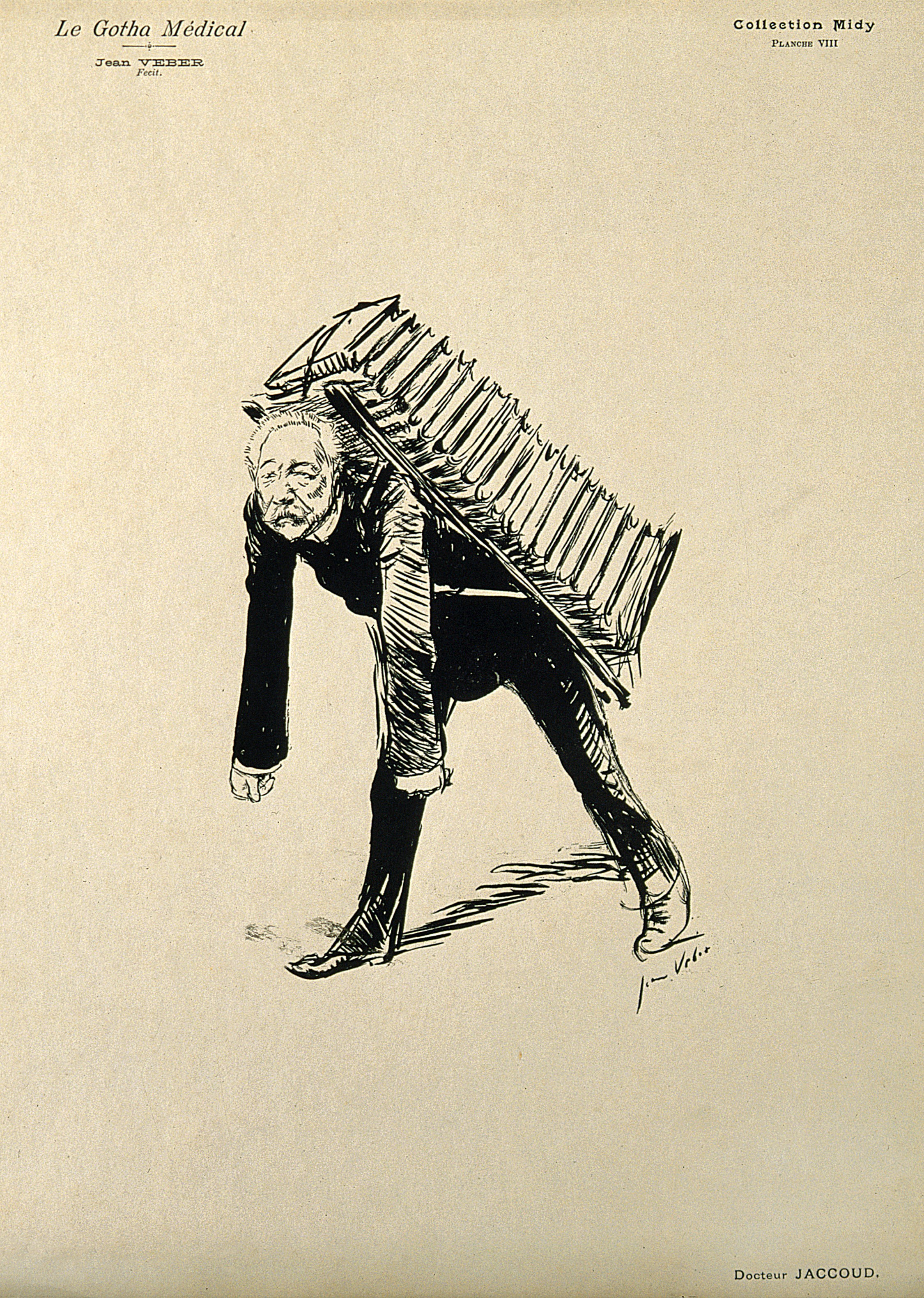 François Sigismond Jaccoud. Reproduction of drawing by Jean Veber. Le Gotha médical, Collection Midy. Iconographic Collections Keywords: portrait prints; Francois-Sigismond Jaccoud